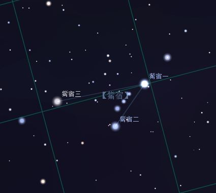 Turtle Beak